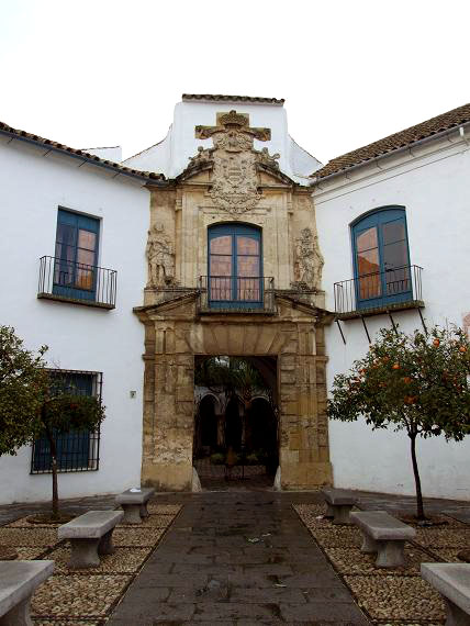 Viana Palace in Córdoba, Spain.